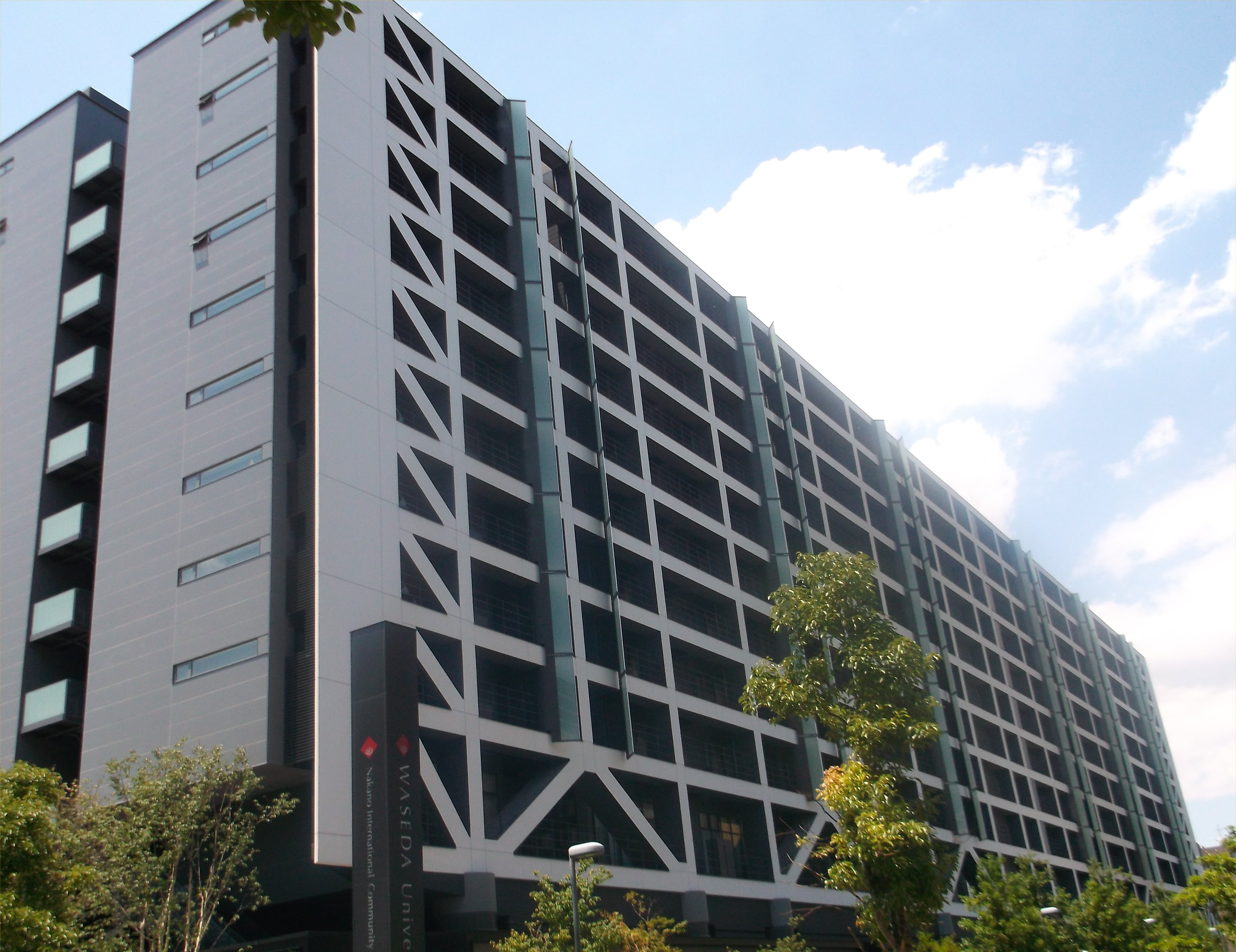 A photo of Waseda University Nakano International Community Plaza,Nakano,Nakano-ku,Tokyo,Japan.